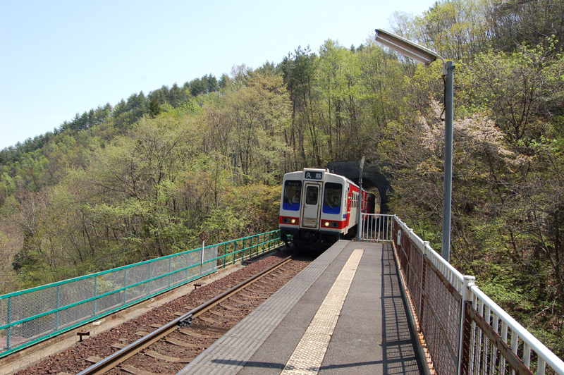 Sanriku Railway Kita Riasu Line Shirai-Kaigan Station platform